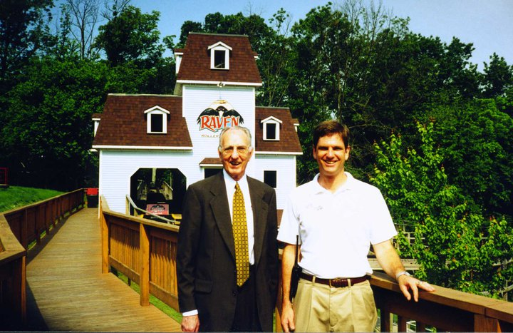 The Raven pre-2002. Bill Koch Sr. is seen in the suit on the left, while Will Koch is seen on the right.